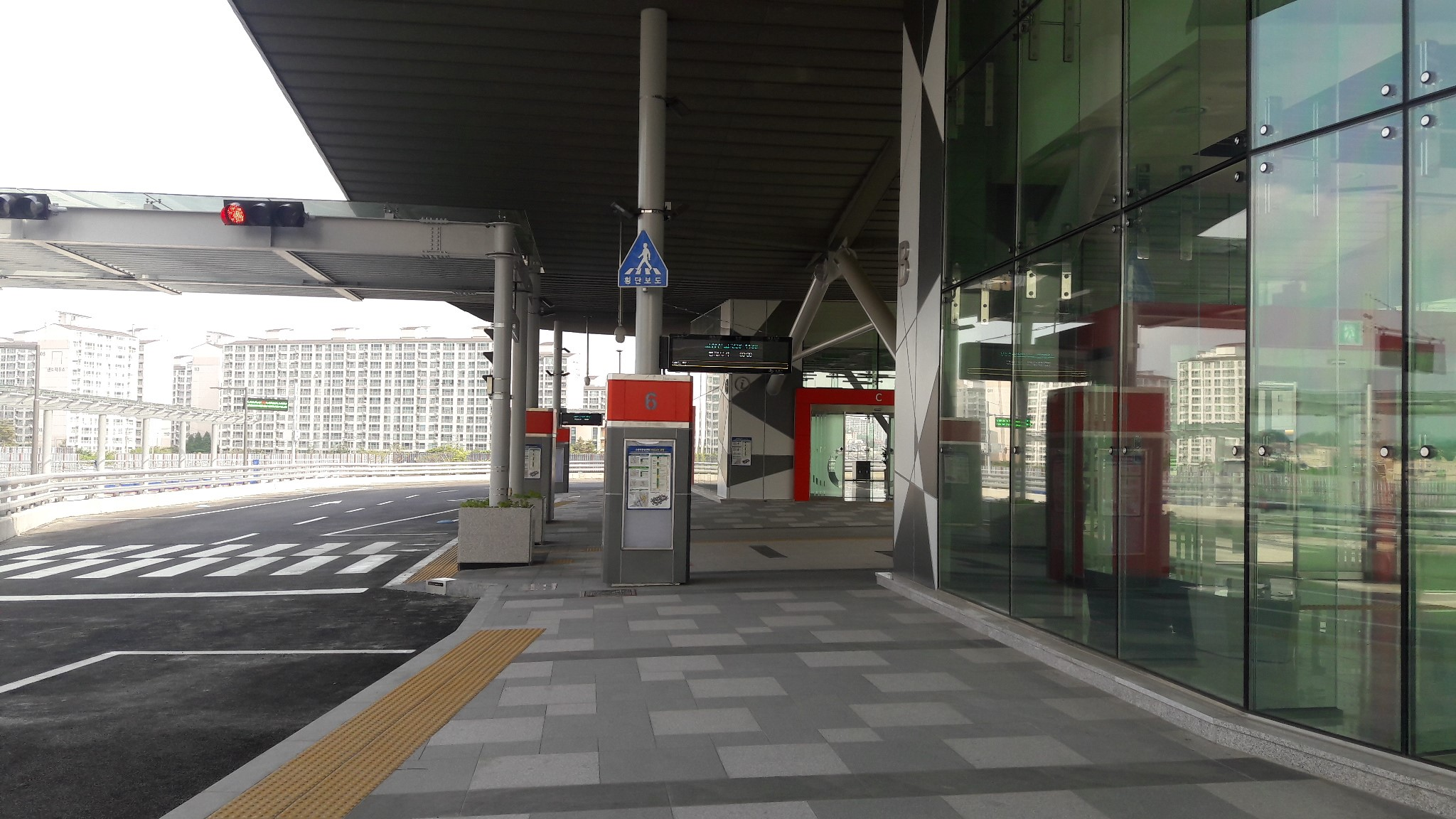 Suwon Station Bus Transfer Center